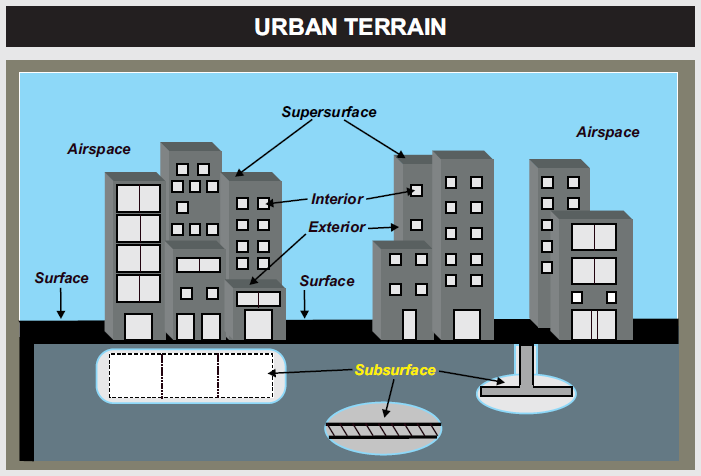 Urban Terrain Concept